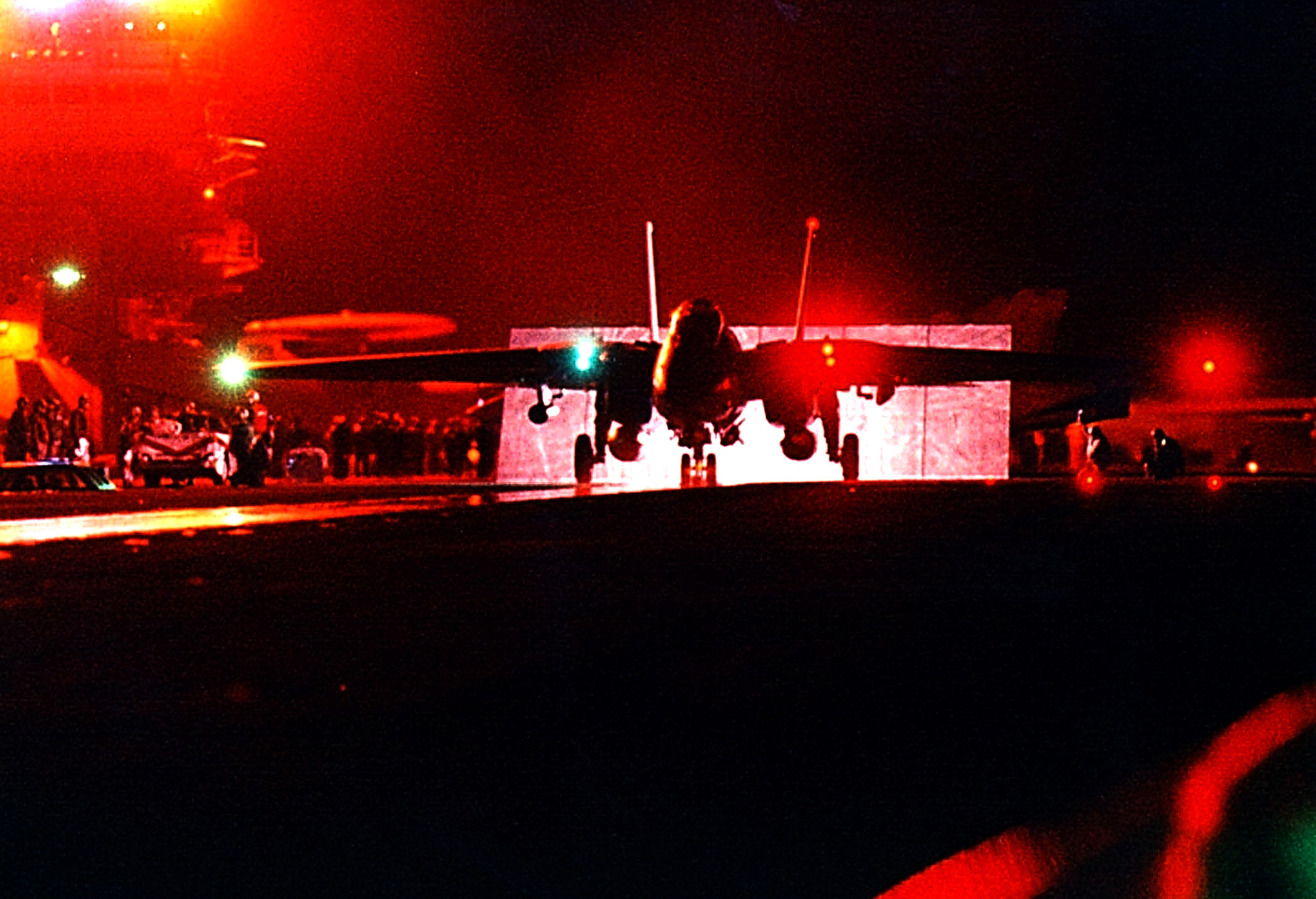 An F-14 "Tomcat" engages it's afterburners prior to a night launch off the flight deck of the U.S. aircraft carrier USS THEODORE ROOSEVELT (CVN 71). ROOSEVELT and its embarked carrier air wing are participating in strikes missions over the former Yugoslavia in support of NATO Operation Allied Force.